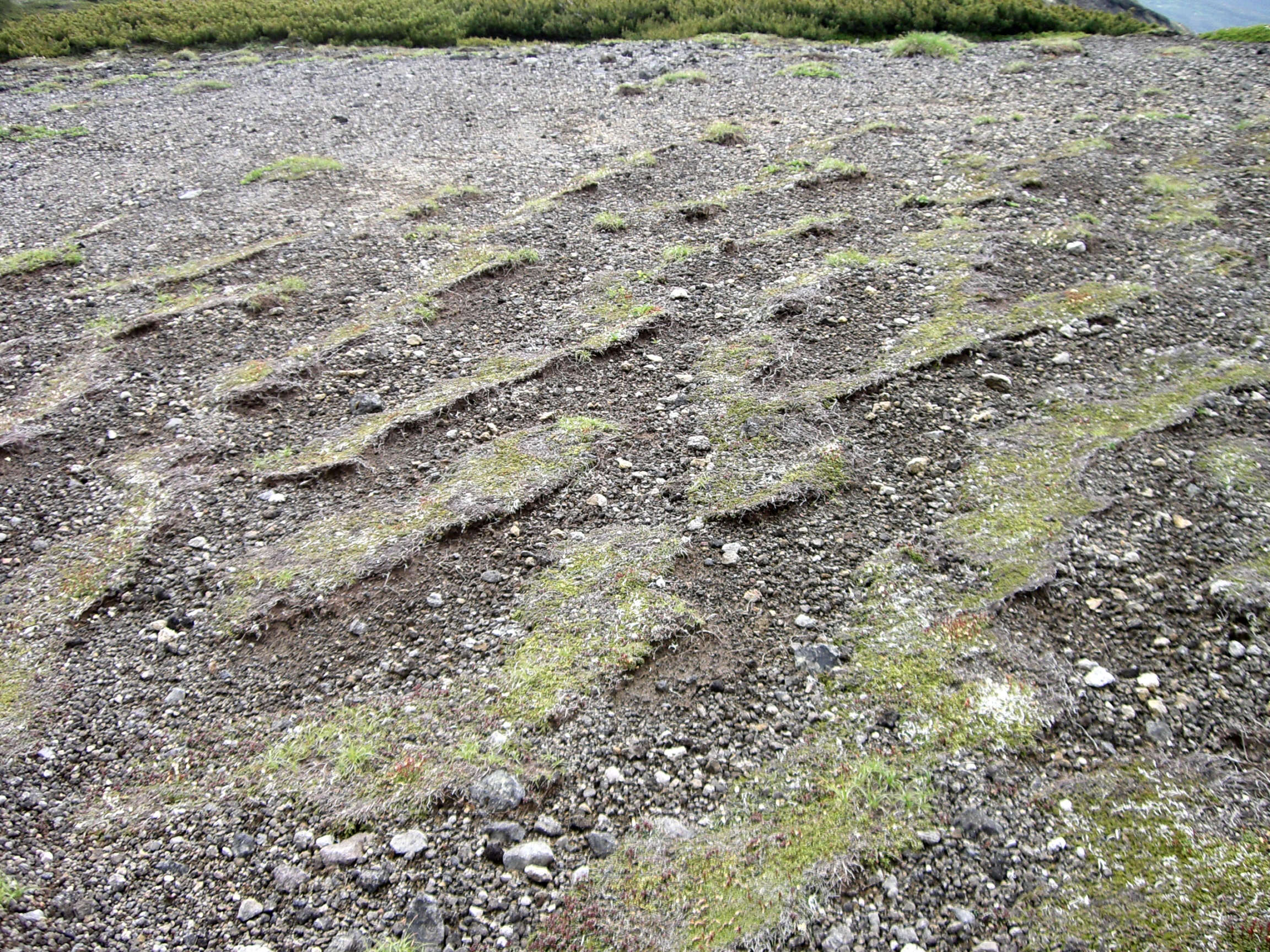 solifluction a kind of mass movement at Daisetsu Mt. Japan